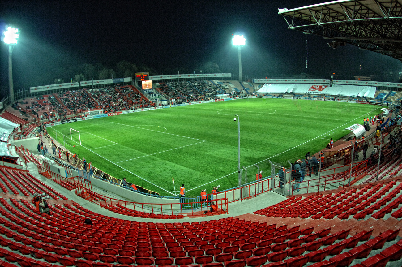 Bloomfield Stadium in Tel Aviv, Israel